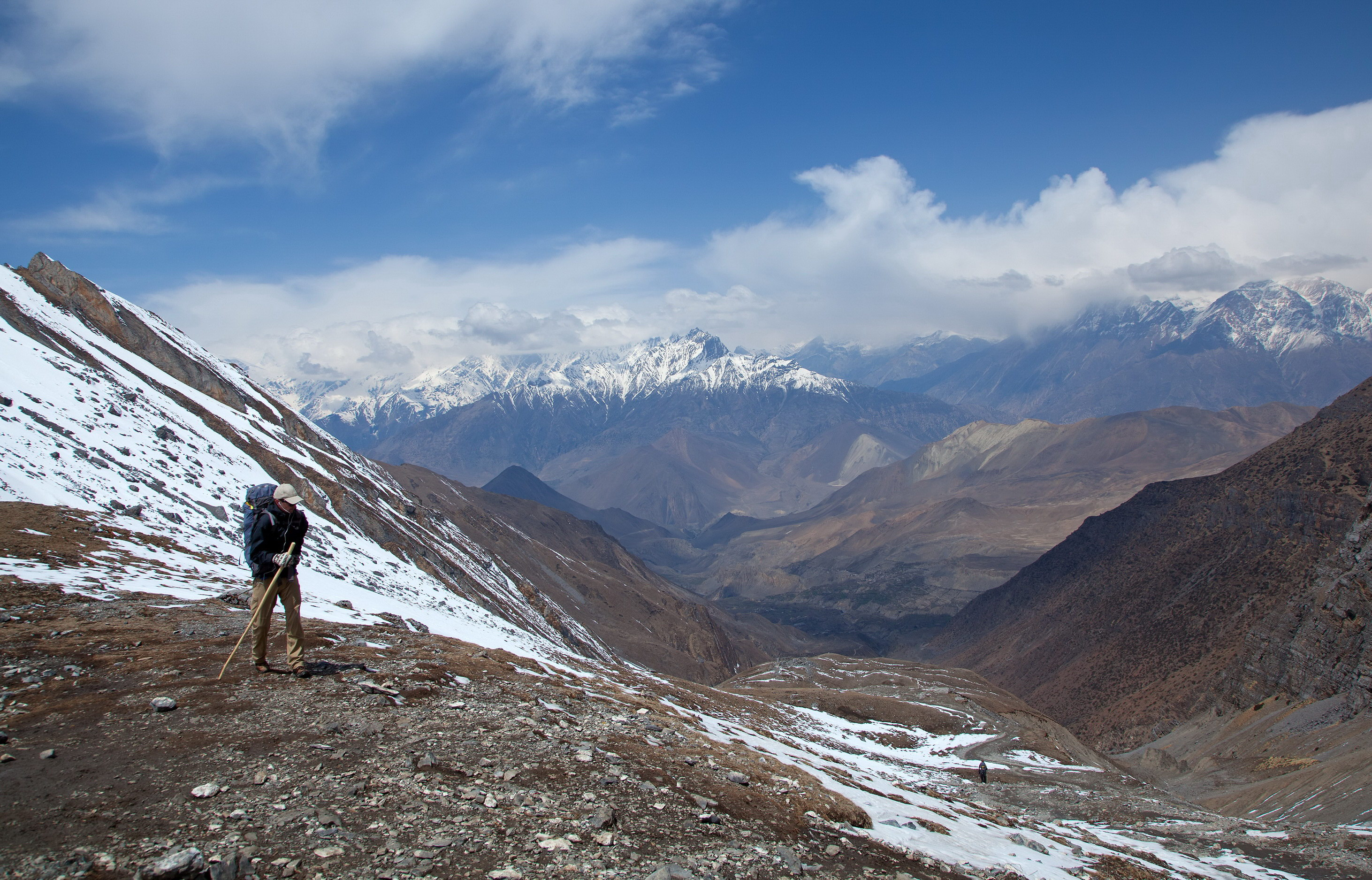 Westbound descend from Thorong La pass (Nepal)